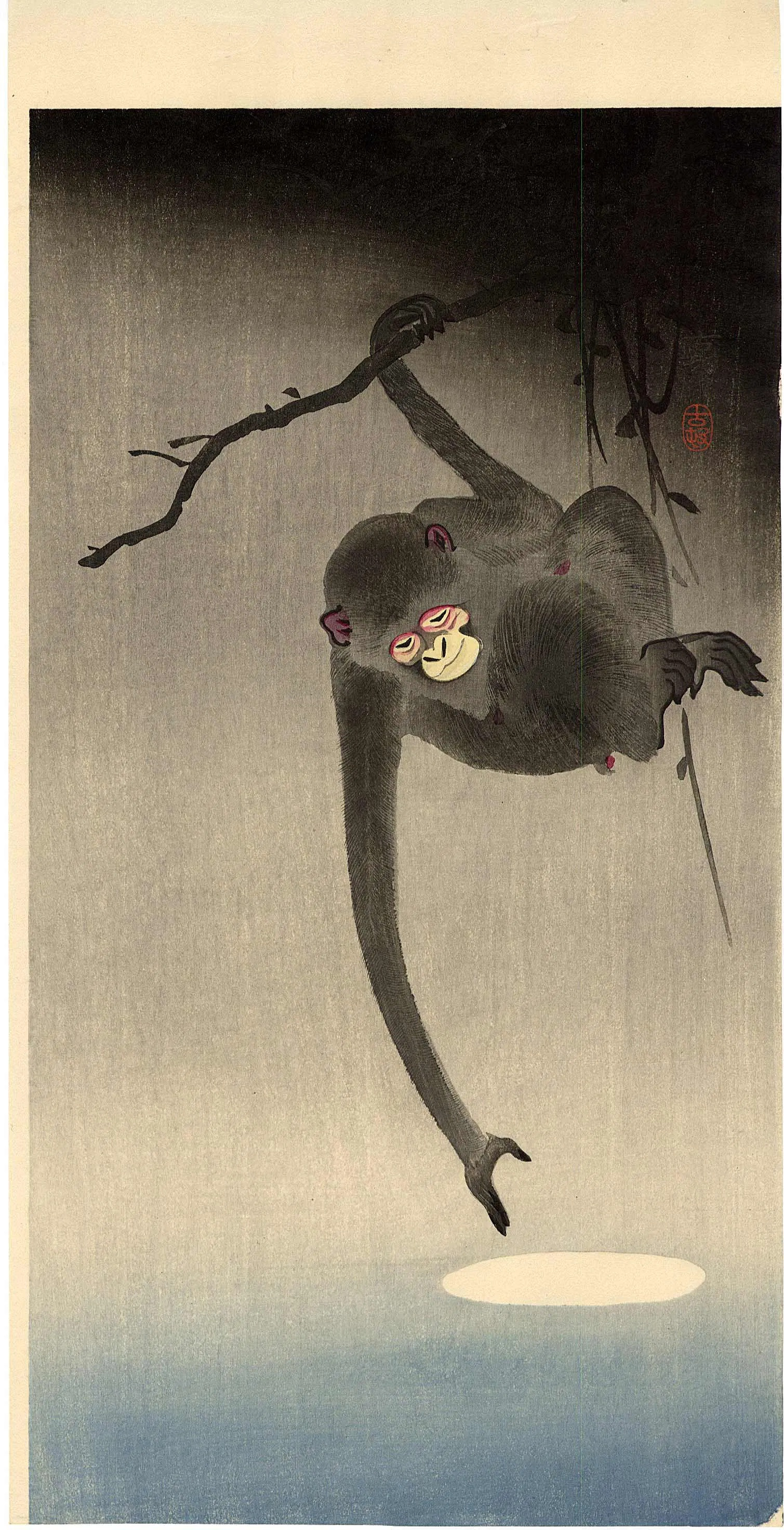 Ohara Koson: Monkey catching reflection of the Moon, 1927.